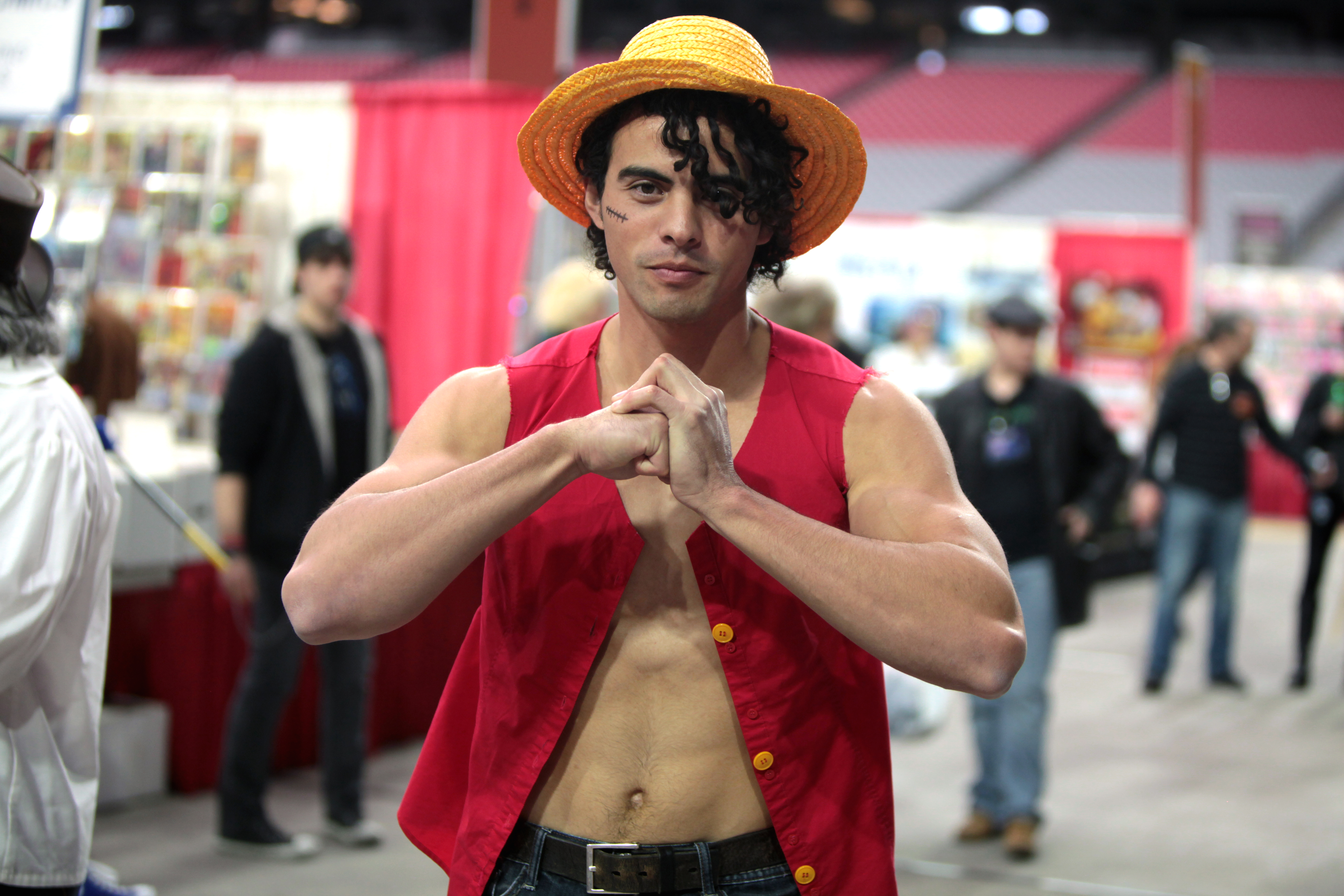 Monkey D. Luffy of One Piece cosplayer at the 2015 Phoenix Comicon Fan Fest at the University of Phoenix Stadium in Glendale, Arizona.